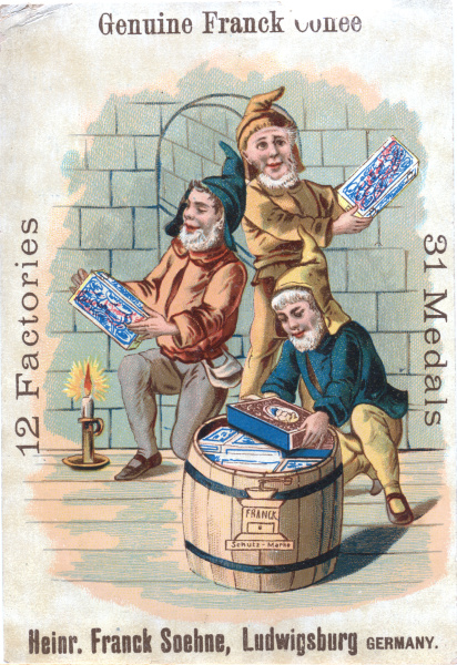 Persistent URL: Subject (TGM): Coffee industry; Elves; Dwarfs; Fictitious characters; Message: Keywords